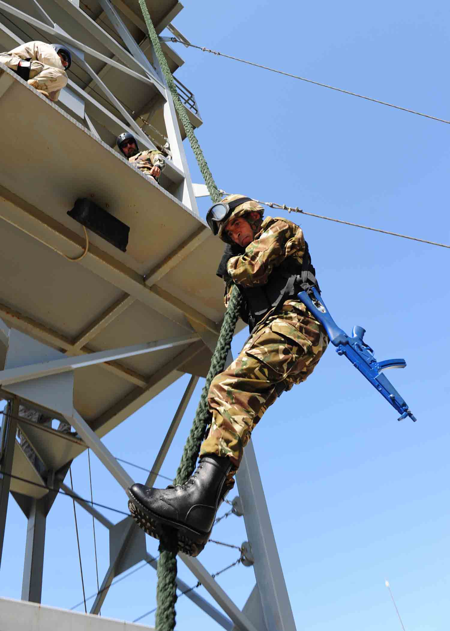 Algerian People's National Army Master Sgt. Larbi Essaidi Kamel practices fast roping during Phoenix Express 2012 at the NATO Maritime Interdiction Operational Training Center in Greece May 14, 2012. Phoenix Express is a two-week exercise designed to strengthen maritime partnerships and enhance stability in the region through increased interoperability and cooperation among partners from Africa, Europe and United States.